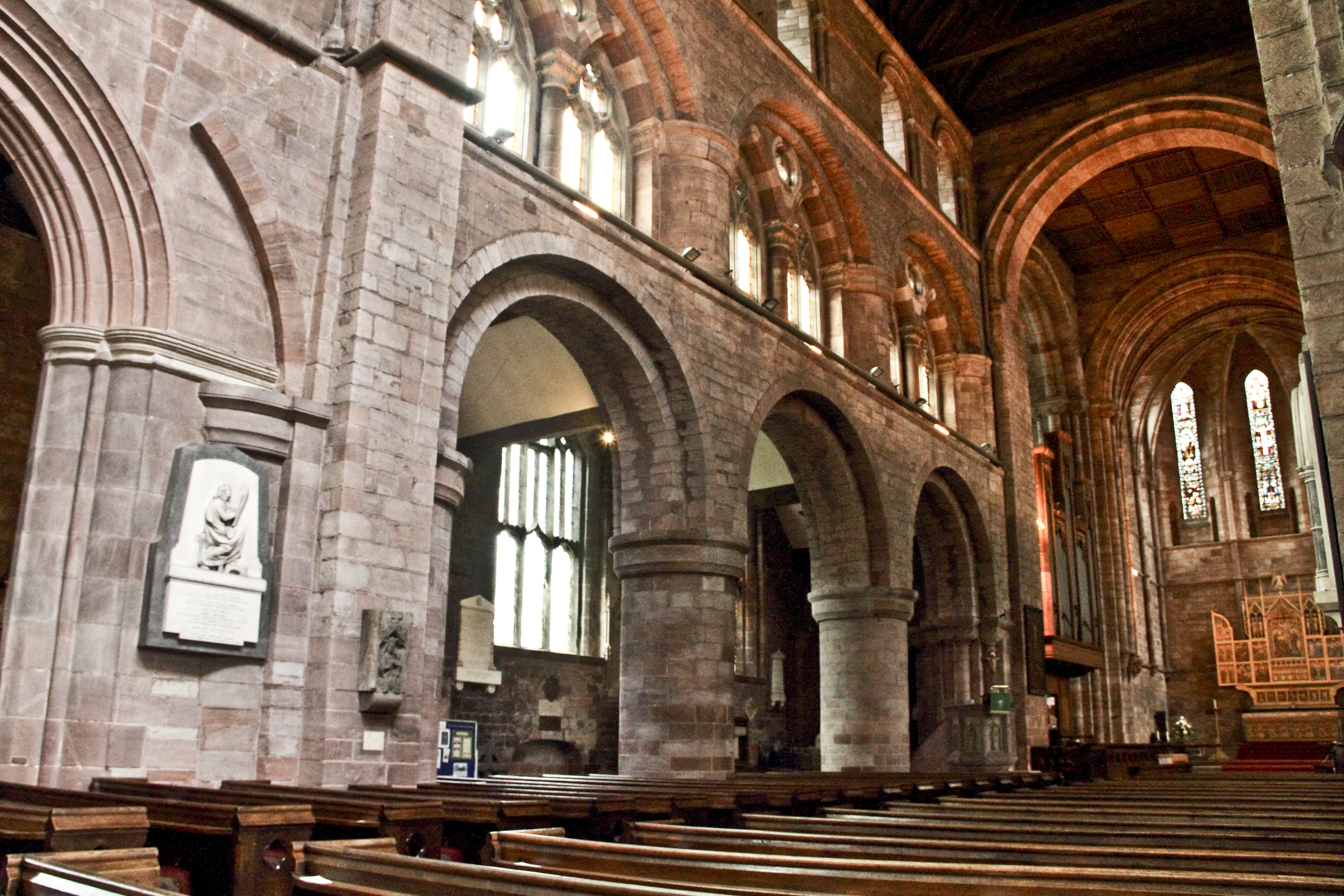 Here is a photograph taken from Shrewsbuy abbey. Located in Shrewsbury, Shropshire, England, UK. You CAN view and download the full 18megapixel image in Flickr, check out the other sizes when viewing***